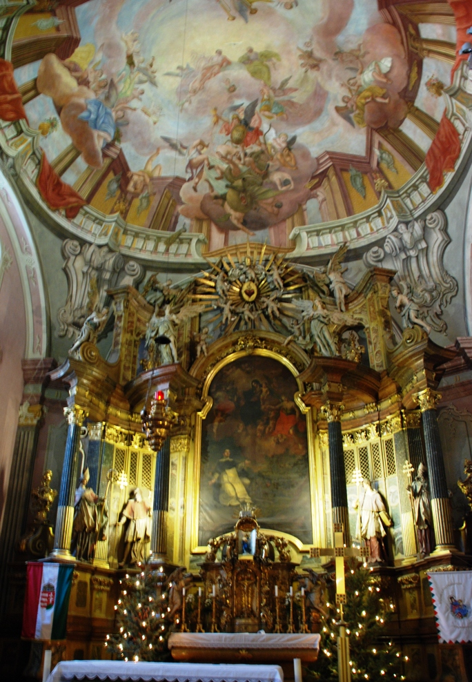 Saint Michael's Church (Budapest)